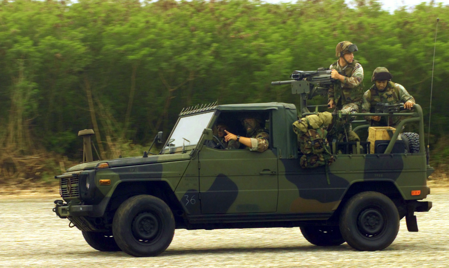 Marines from Weapons Company (WC), 2nd Battalion, 4th Marine Regiment race their Interim FAST ATTACK VEHICLE (IFAV) along the North Field, on Tinian Island, in support of Exercise TANDEM THRUST 2003.